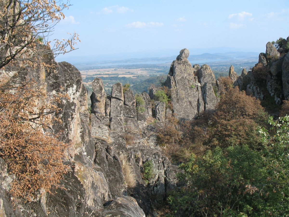 Borački krš,volcanic rocky formations above Borač in Knić municipality,near Kragujevac,Serbia.